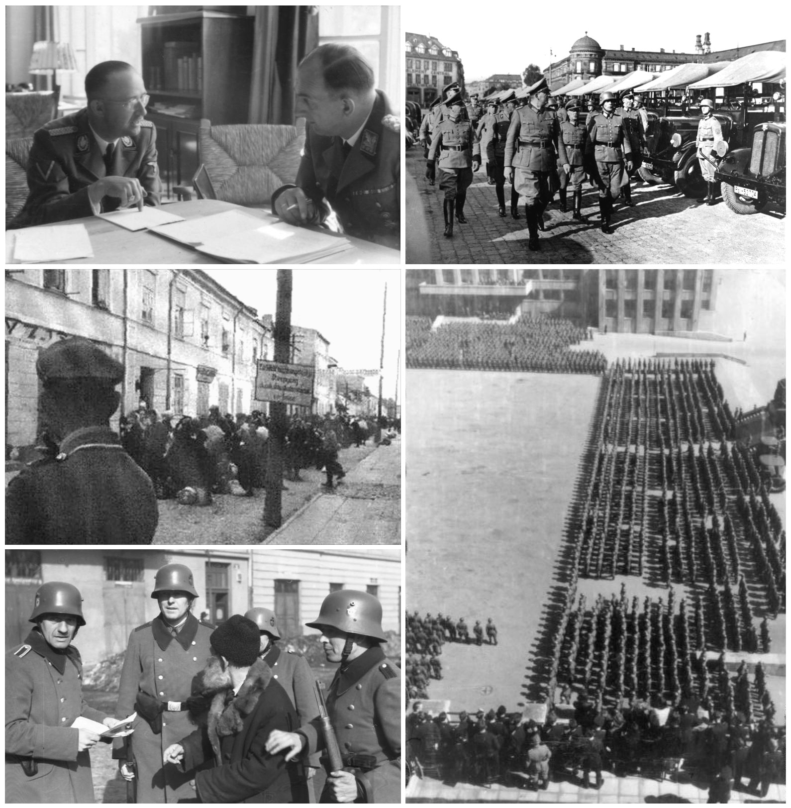 Collage of images provided to Wikimedia Commons by the German Federal Archive (Deutsches Bundesarchiv) as part of a cooperation project. The Ordnungspolizei (German: [ˈʔɔɐ̯dnʊŋspoliˌt͡saɪ], Order Police), abbreviated Orpo, was the uniformed police force in Nazi Germany between 1936 and 1945. Illustration for the overview article about the history of Ordnungspolizei in Wikipedia.